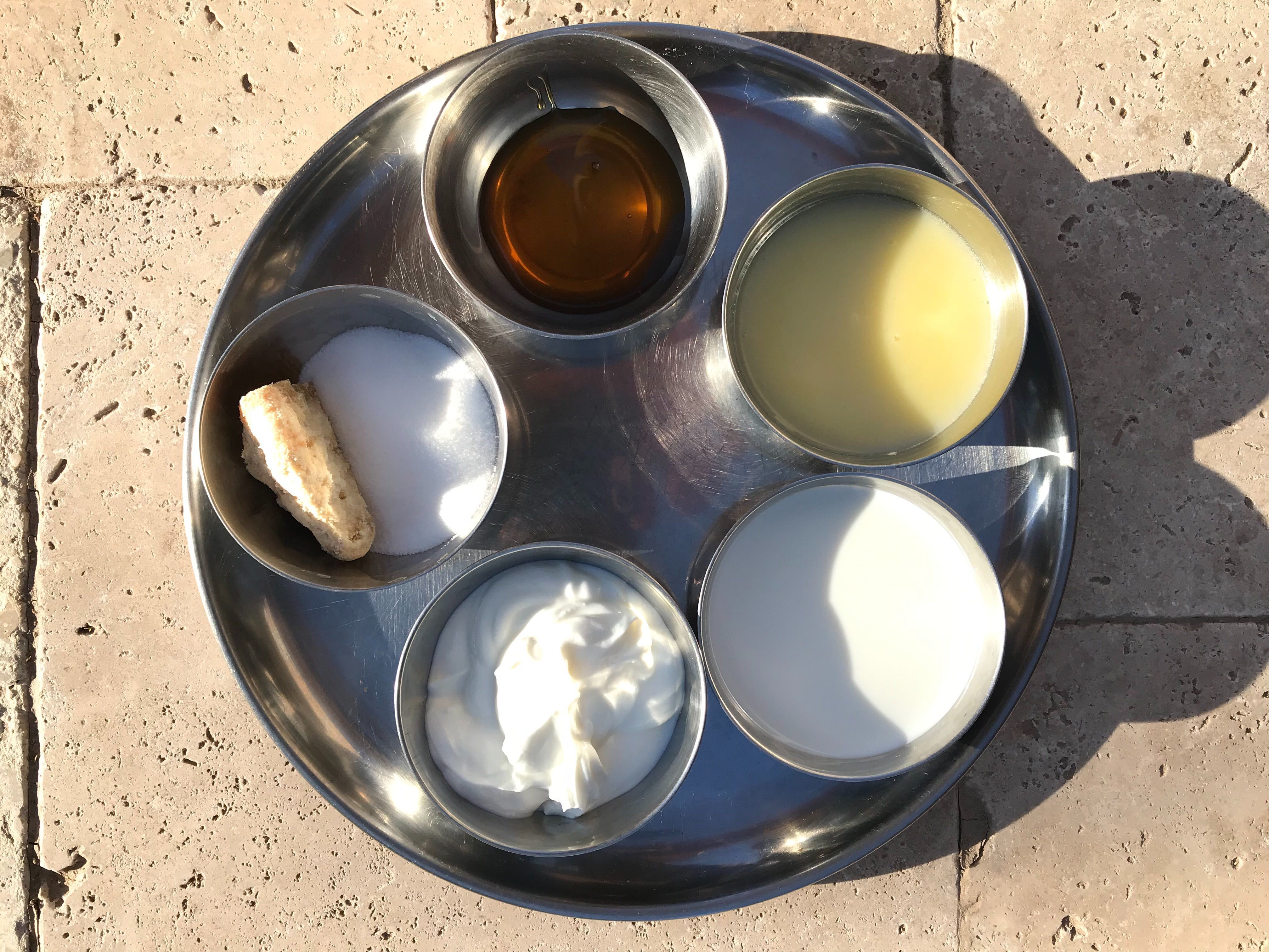 The five ingredients of panchamrita include milk, yogurt, ghee, honey, and sugar or jaggery.